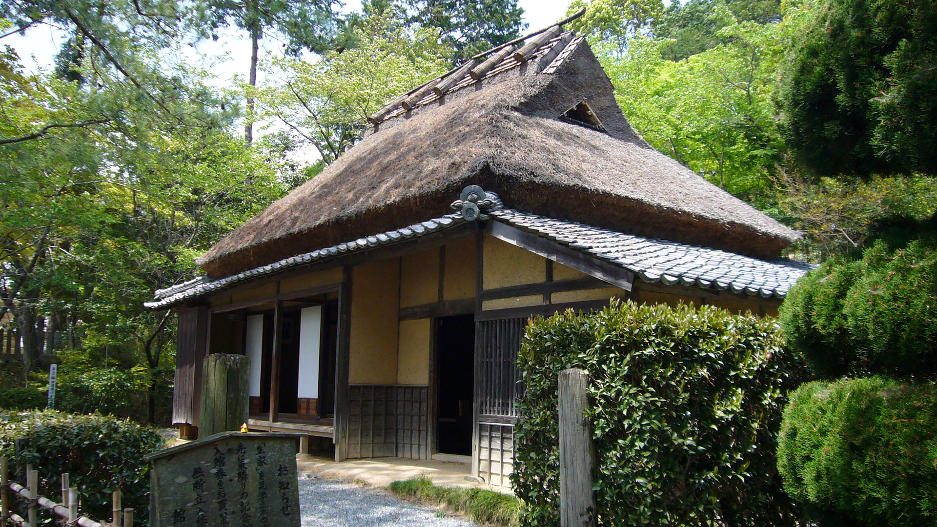 Kunio Yanagita's parents' home in Fukusaki, Hyogo prefecture, Japan